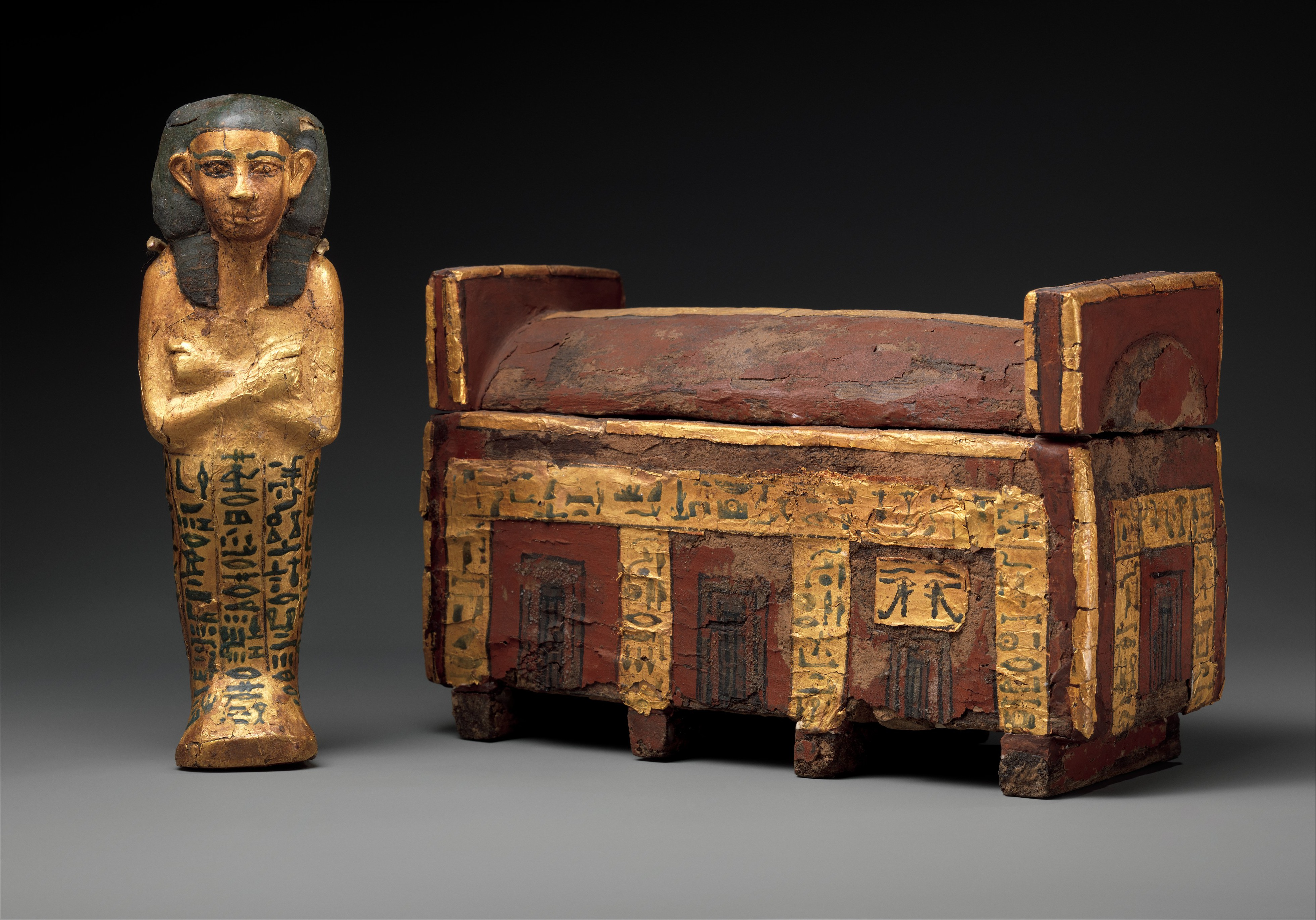 Model coffin and shabti of Wahneferhotep from the causeway of the pyramid of Senusret I, el-Lisht; 12th or 13th dynasty; Metropolitan Museum of Art, New York